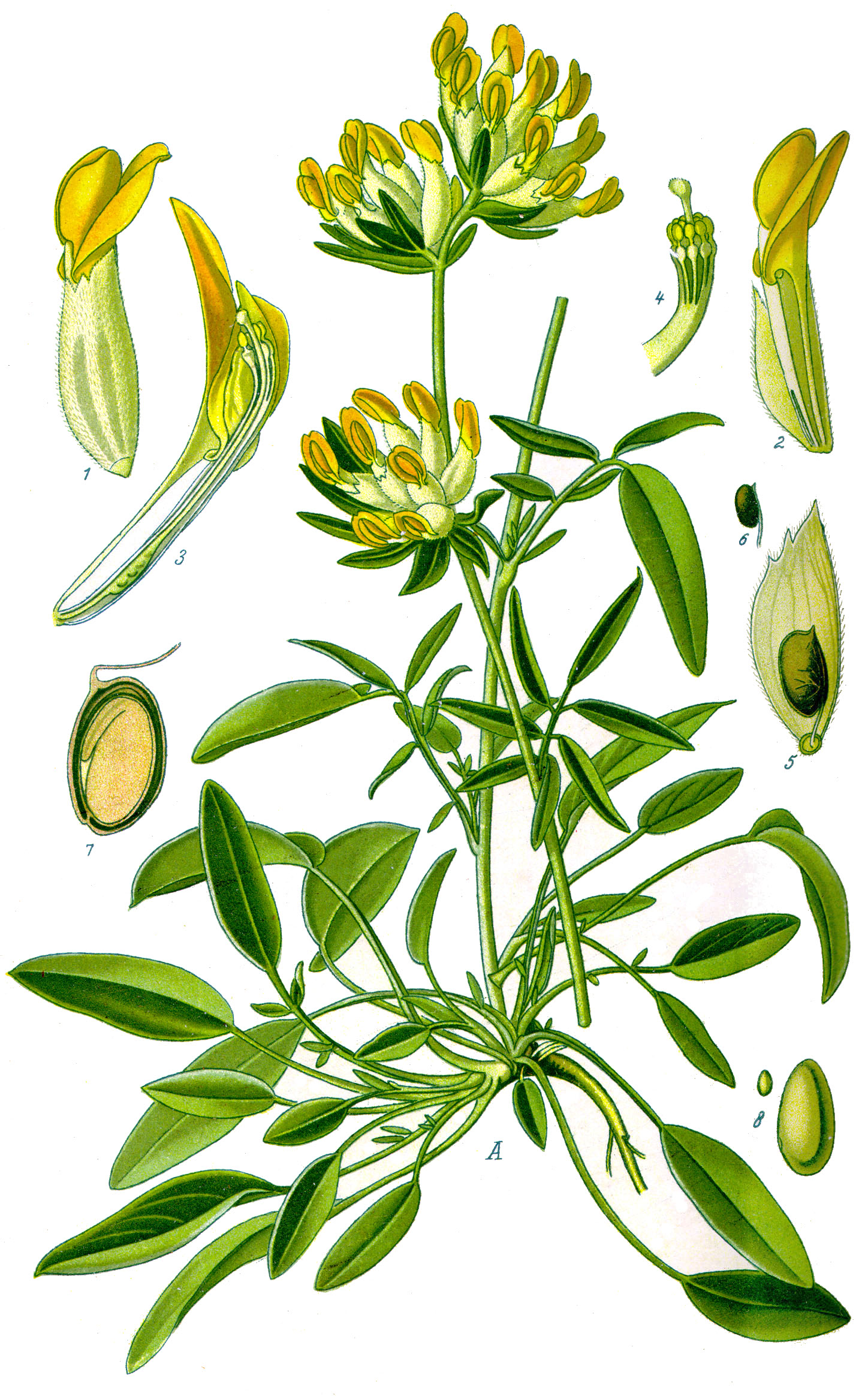 Name Anthyllis vulneraria ;Family:Fabaceae Original book source: Prof. Dr. Otto Wilhelm Thomé Flora von Deutschland, Österreich und der Schweiz 1885, Gera, Germany Permission granted to use under GFDL by Kurt Stueber